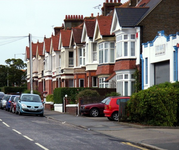 Street in Margate/Cliftonville (Kent), July 2009